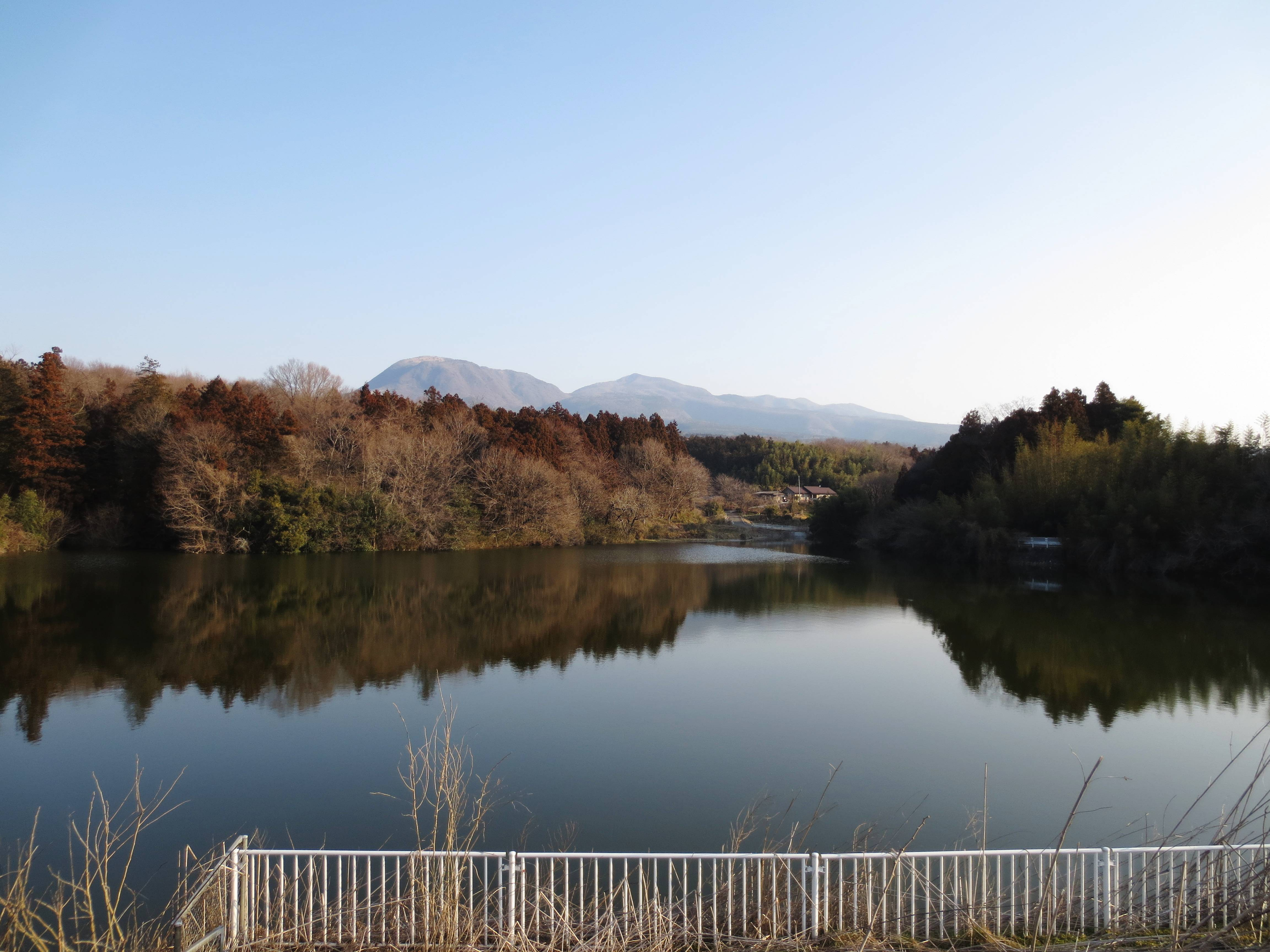 Terazawa Dam.